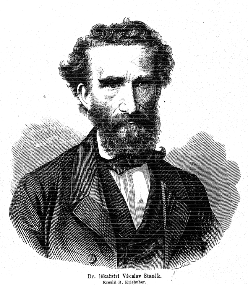 Portrait of Václav Staněk (1804-1871), Czech physician and politician.